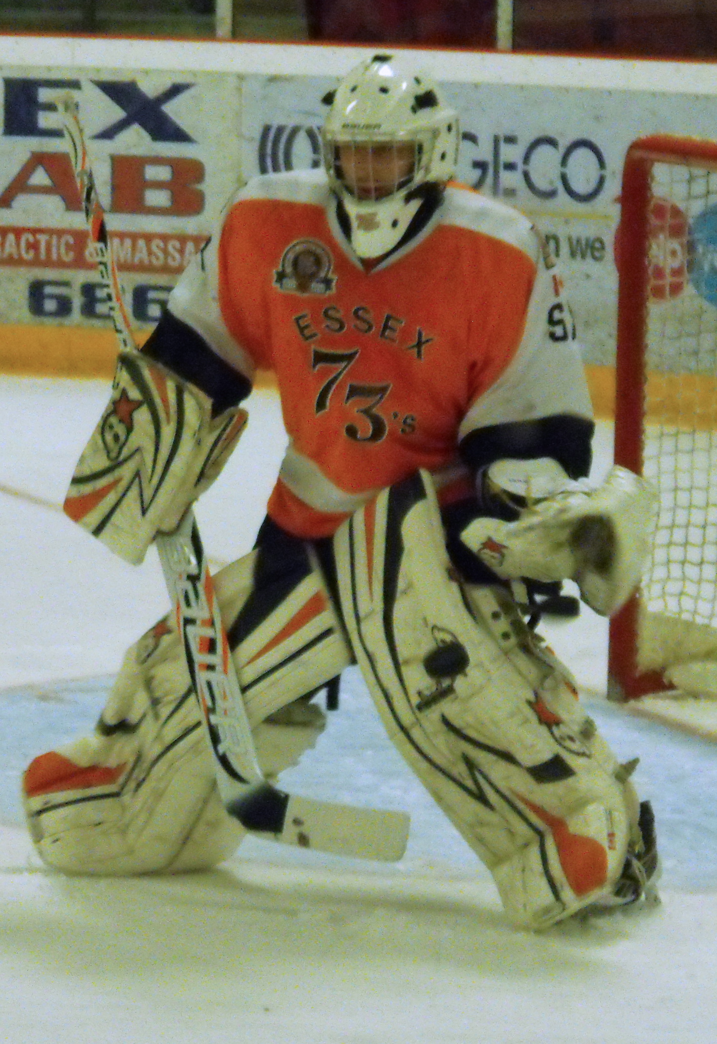 These images of GLJHL action are taken by Devan Mighton.